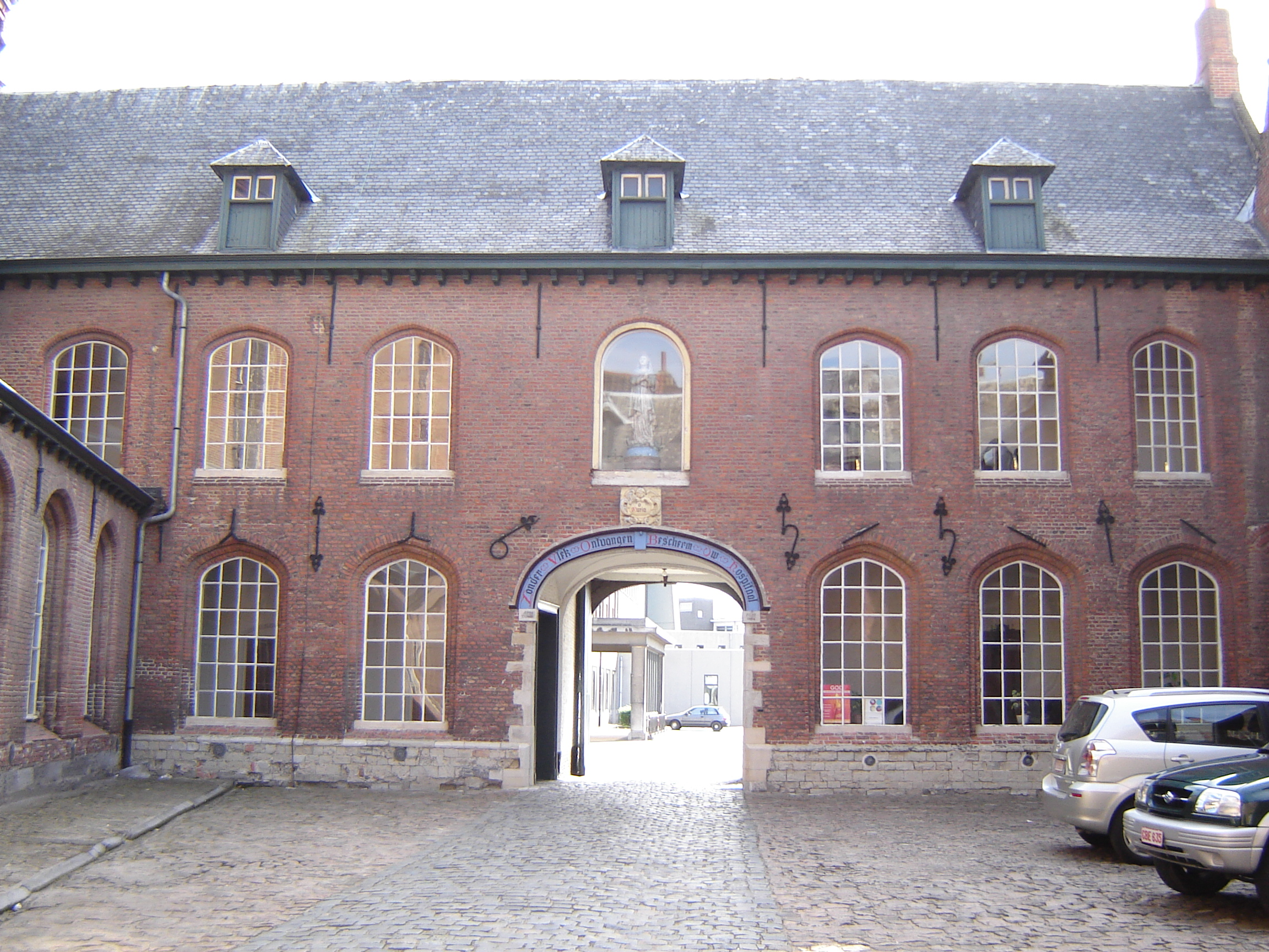 Onze-Lieve-Vrouwhospitaal ("Hospital of Our Lady") in Kortrijk. Kortrijk, West Flanders, Belgium.